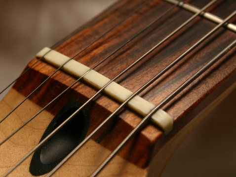 2003-ish Fender Made-in-Mexico Stratocaster with .11 gauge strings.